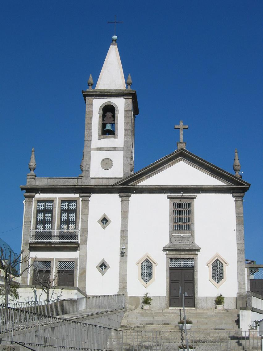 Chapel of Senhor Jesus da Boa Vista - Oporto - Portugal